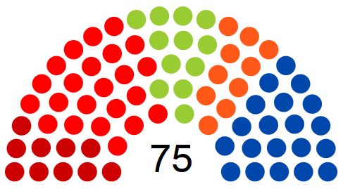 Parliament of Wallonia in June 2019. Created with